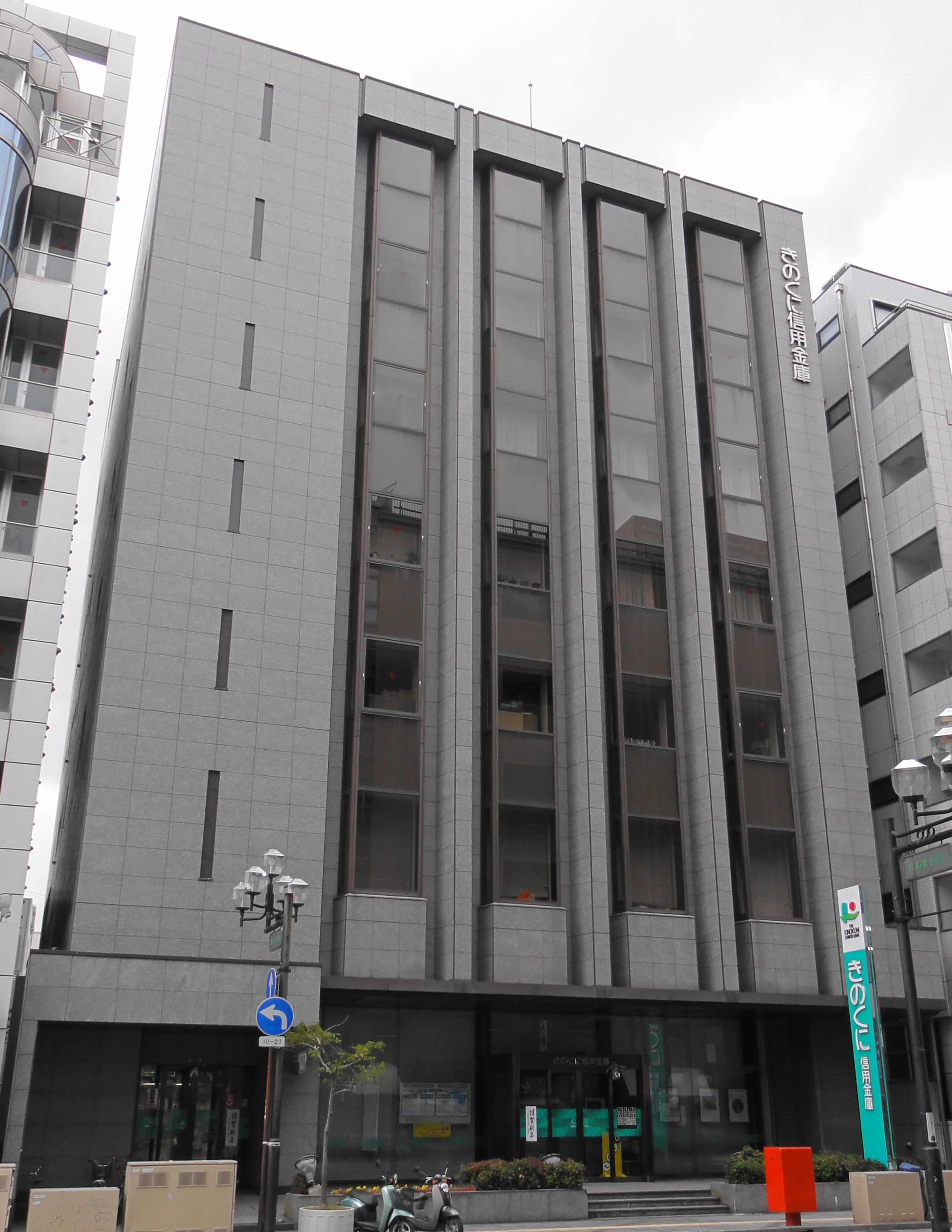 Kinokuni Shinikn bank(Head office),Wakayama prefecture, Japan